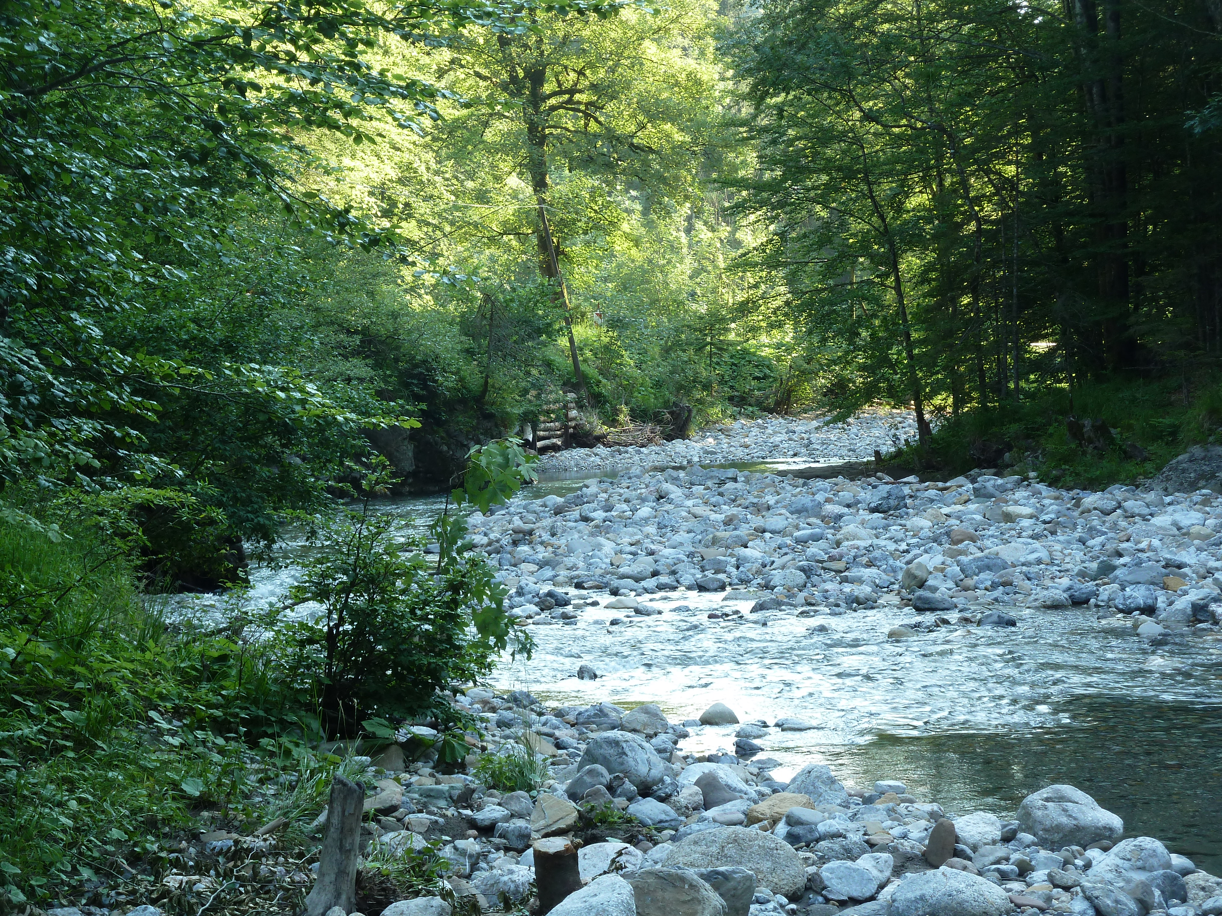 Upper course of the Tržič Bistrica in Jelendol